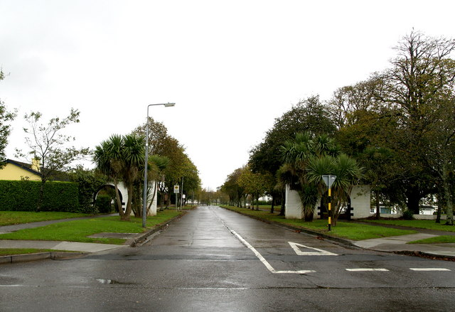 Water Park road junction in Carrigaline, Cork, Ireland